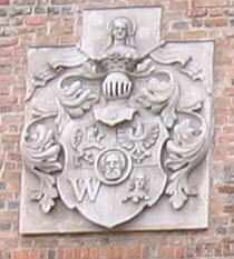 Wrocław, Poland - coat of arms of the town on the wall of town arsenal Wrocław - herb miasta na ścianie Arsenału